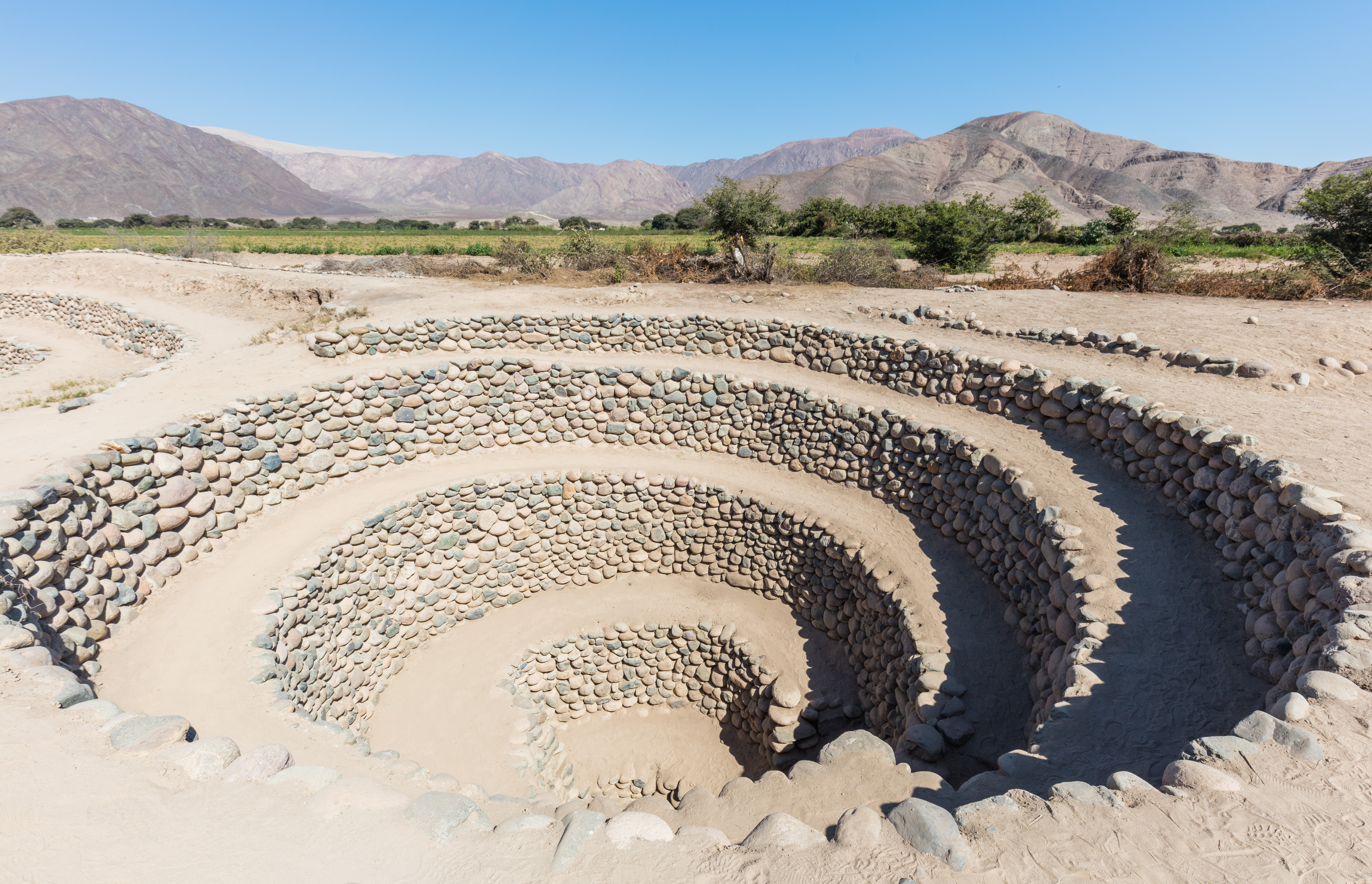 Cantalloc subterranean aqueducts, Nazca, Peru